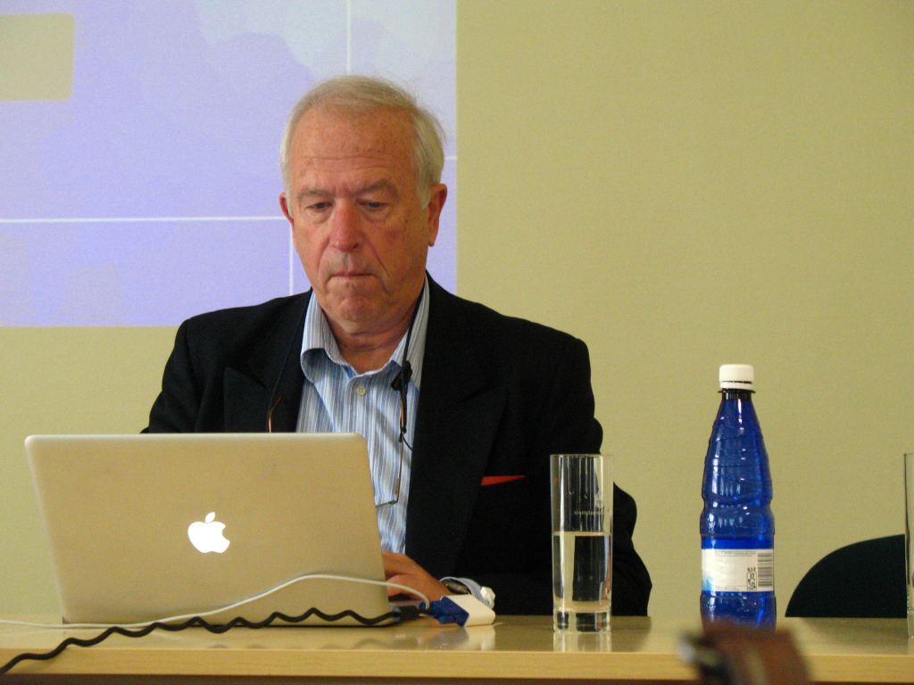 Simon Blackburn giving the Gottlob Frege Lectures in Theoretical Philosophy 2009 in Tartu, Estonia.